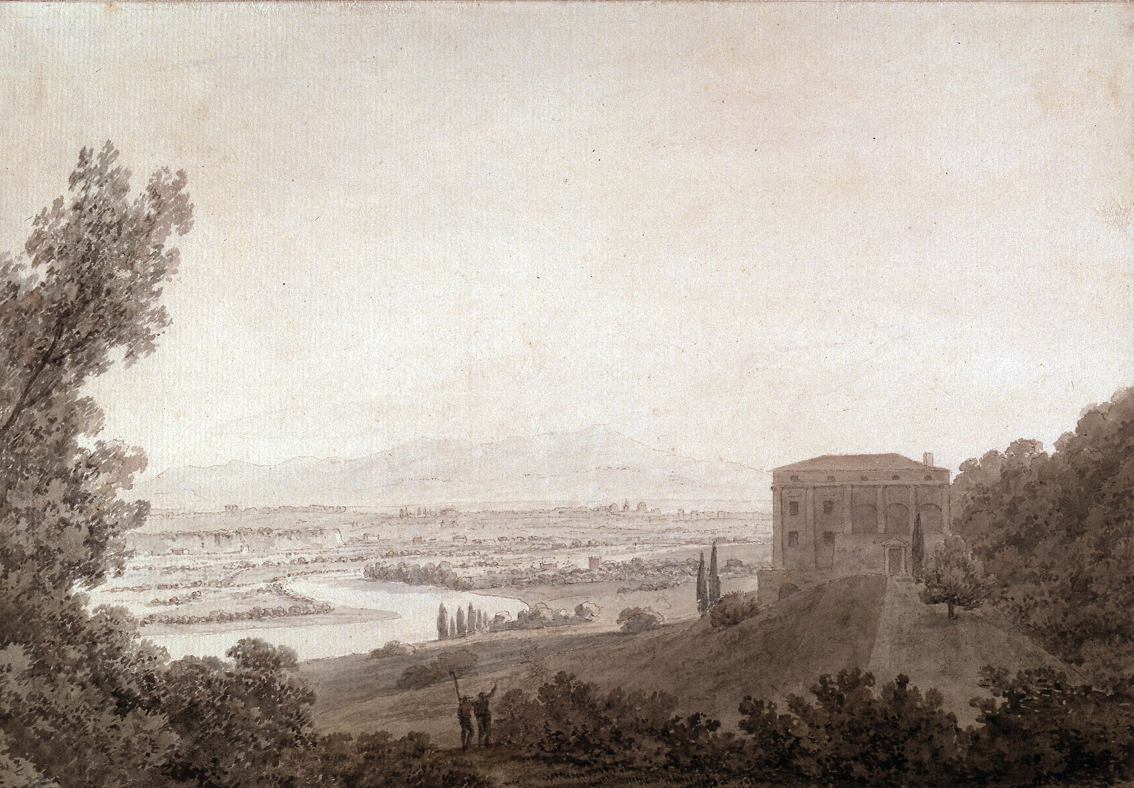 Rome from the Villa Madama.